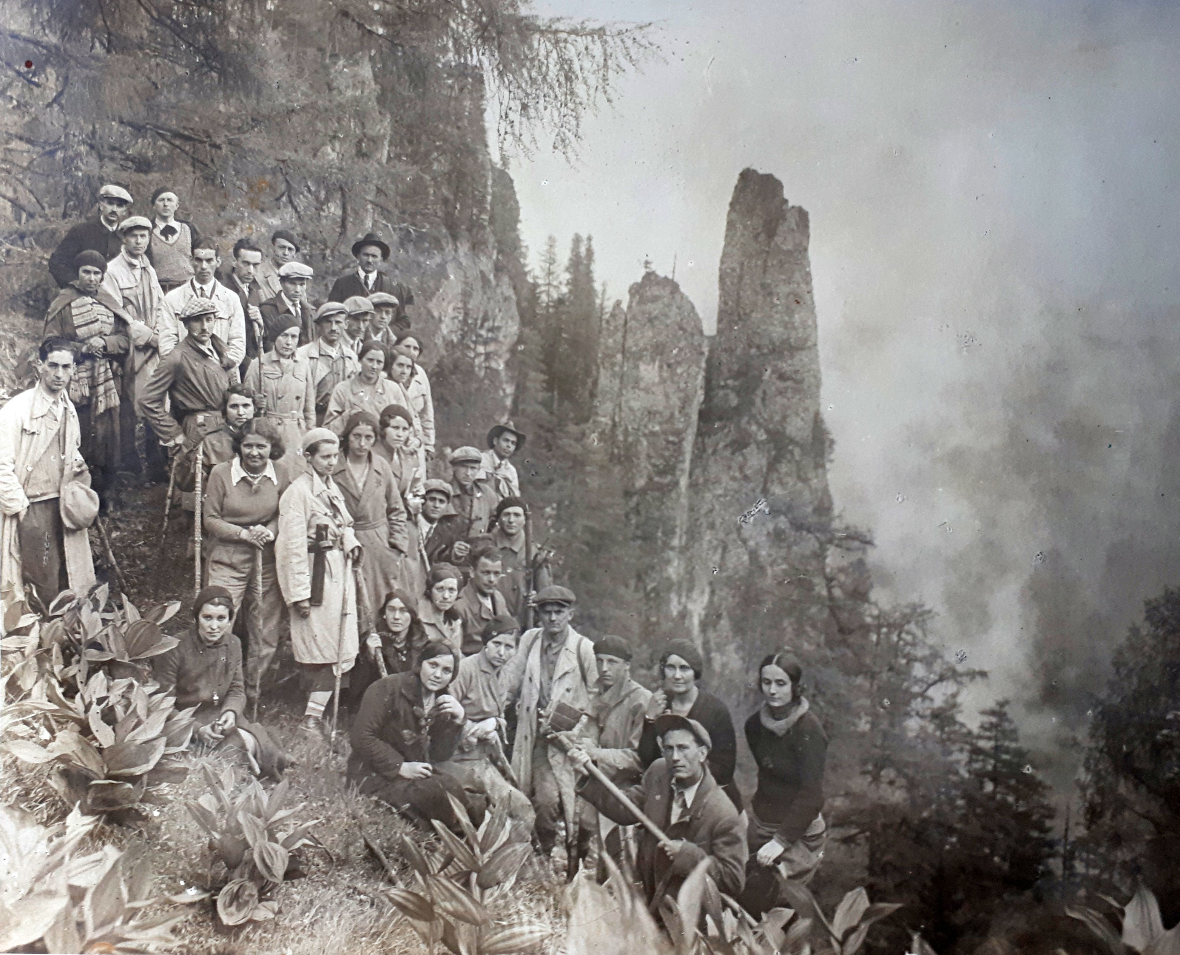 Trip to Ceahlau. Forestry faculty assistants on the last row - from left to right: Constantin Chirita, Grigore Eliescu, Marin Radulescu (right, with hat) These girls were not Romanian forestry students. They appear also in pictures from a trip to Czechoslovakia with forest engineers and Iuliu Moldovan.